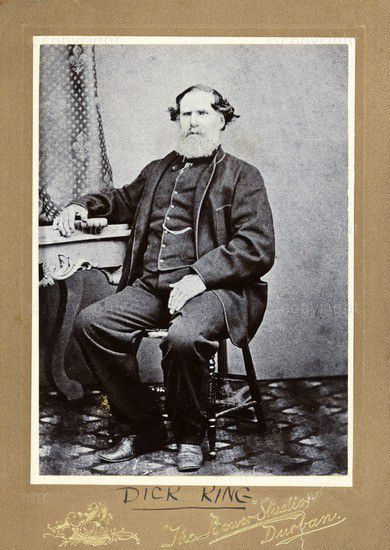 Dick King (Richard Philip King) (1813 – 1871) Famed for his epic ride to summon assistance from Grahamstown for a besieged British army in 1842. Dick King set out on his ride from Durban to get relief on May 26, 1842. Accompanied by Ndongeni, a Zulu, King traveled 1000 km to Grahamstown in ten days. Bolstered by the reinforcements, the British army won the battle.